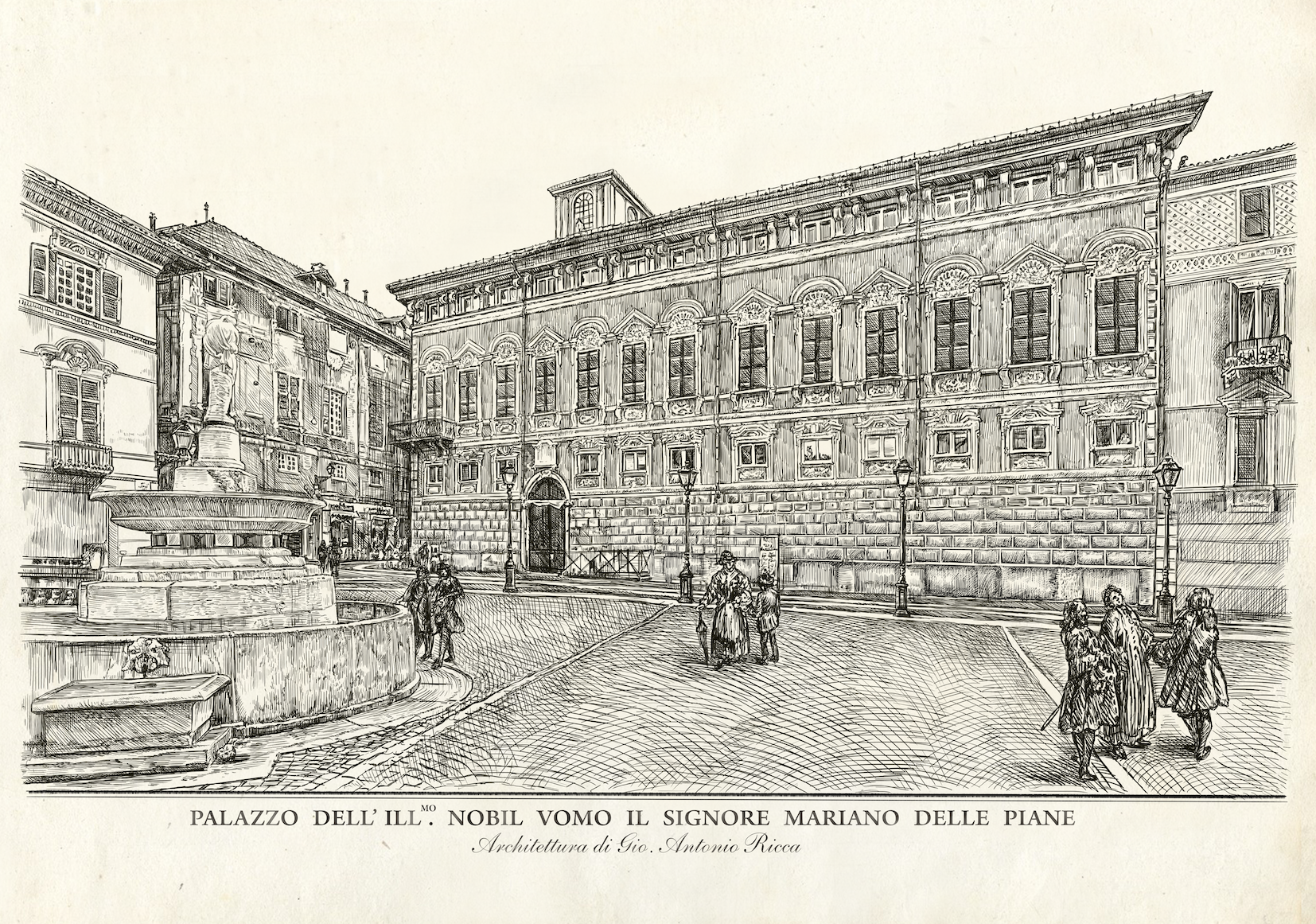 Delle Piane Palace a Novi Ligure